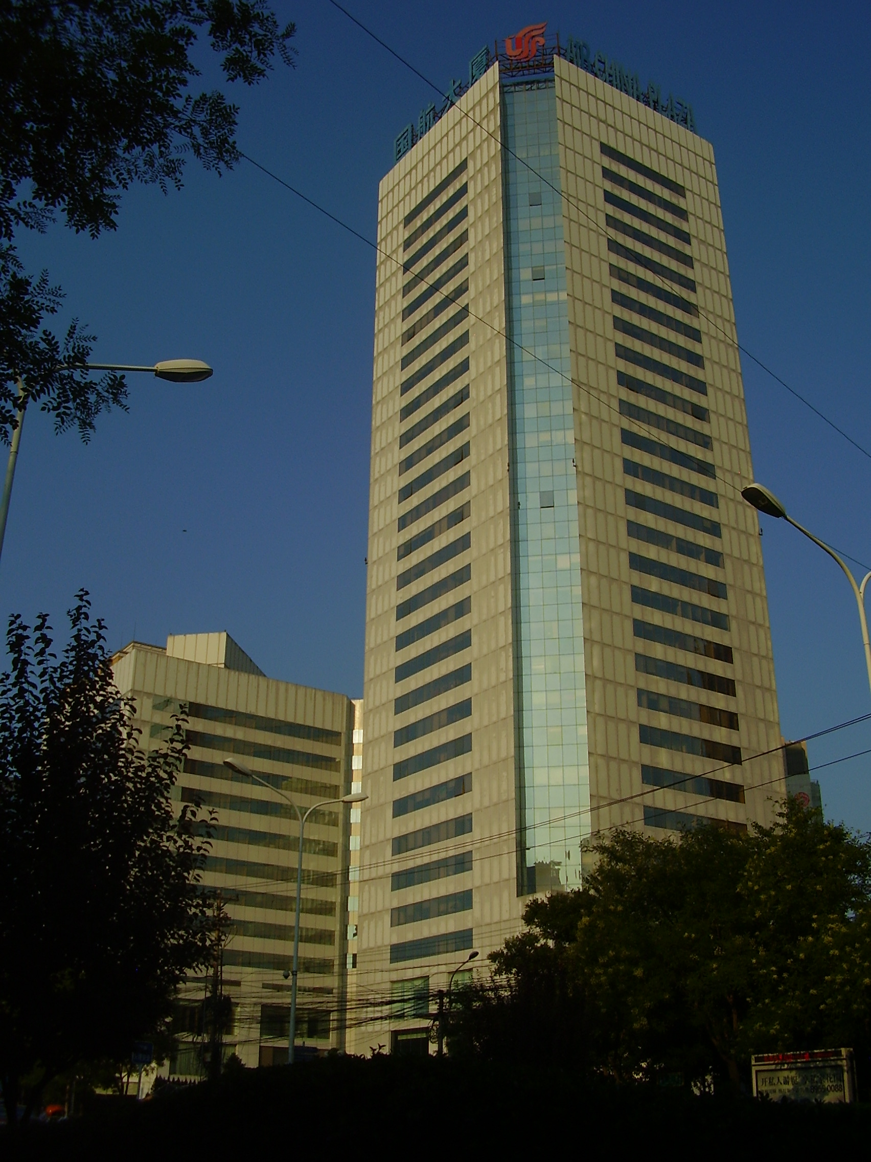 Air China Plaza (S: 国航大厦, T: 國航大廈, P: Guó Háng Dàshà), the headquarters of the China National Aviation Holding Company - No.36 Xiaoyun Road, Chaoyang District, Beijing